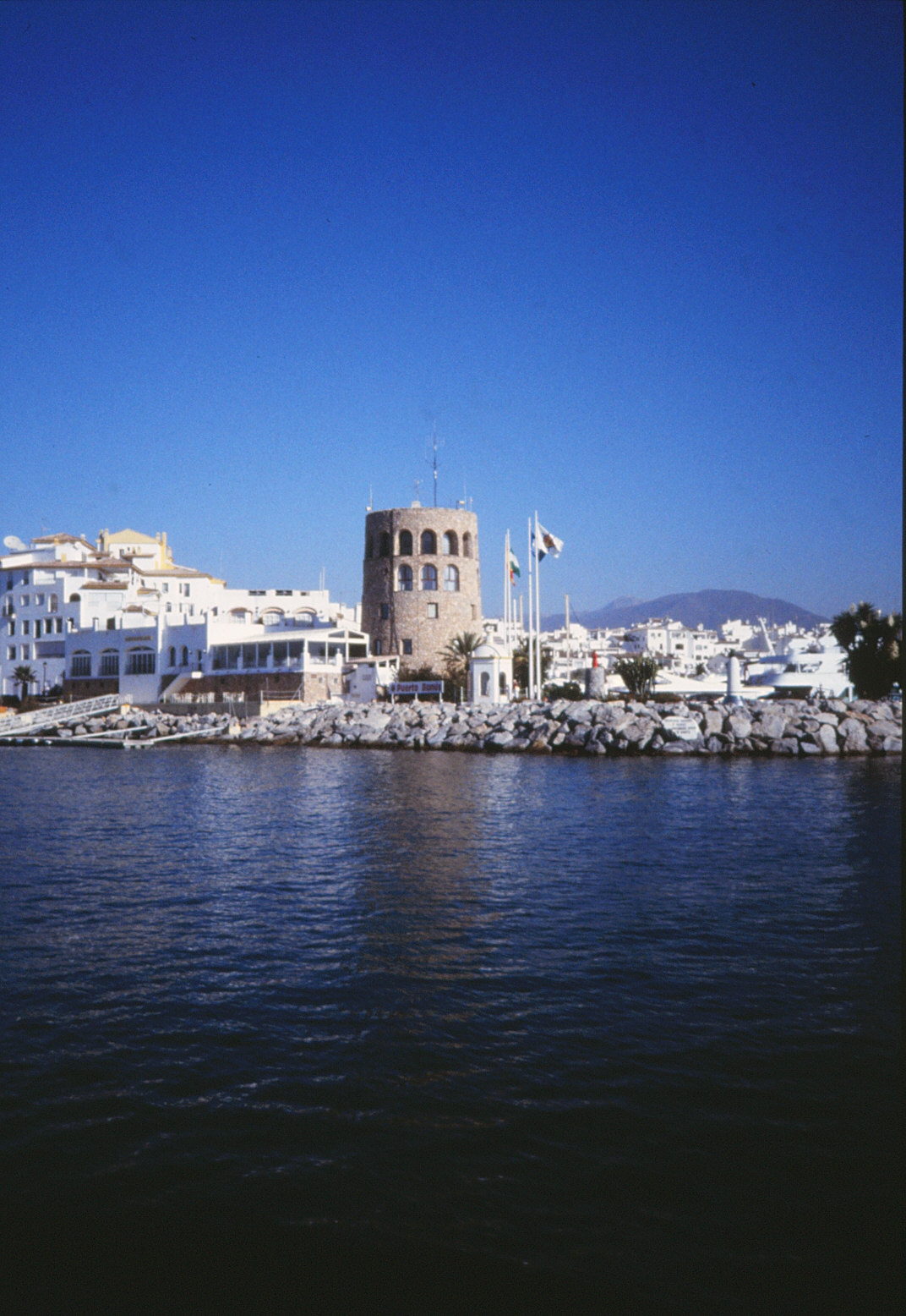 Entrence to the harbour Puerto Banús near Marbella in Andalusia. September 8, 2001.